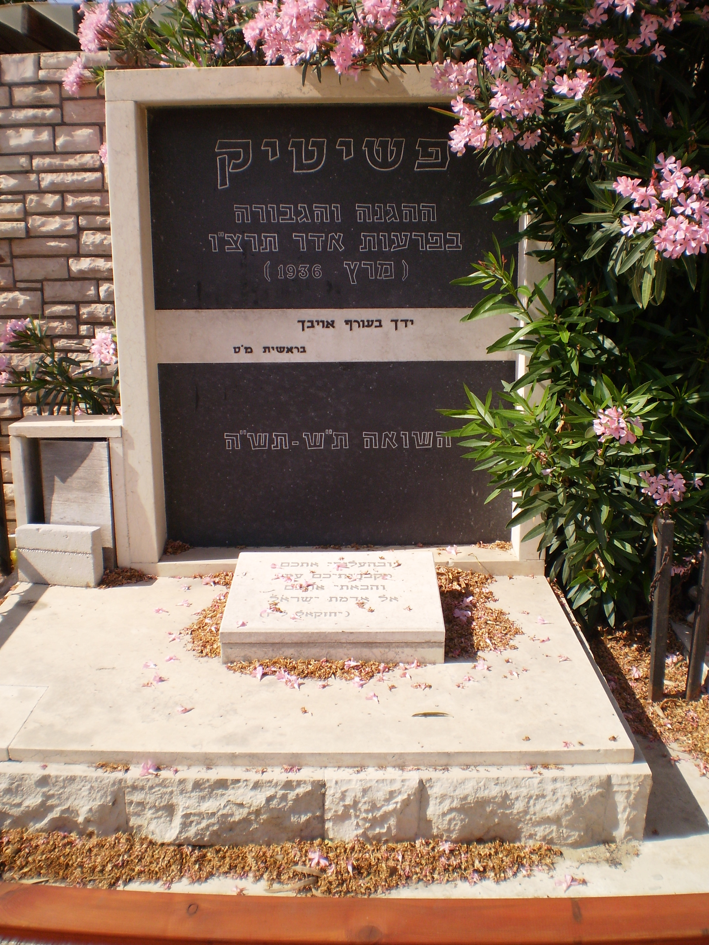 Przytyk (פשיטיק) Jewery memorial at Holon Cemetery